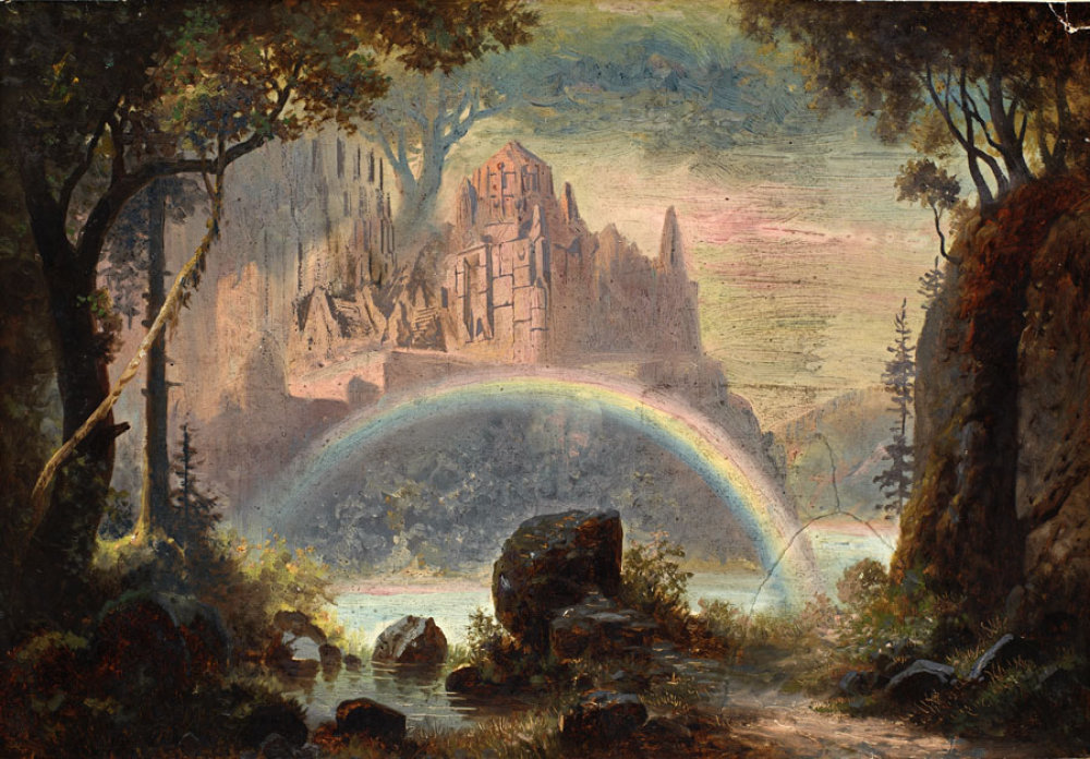 design for the 1878 staging of "Das Rheingold" by Richard Wagner